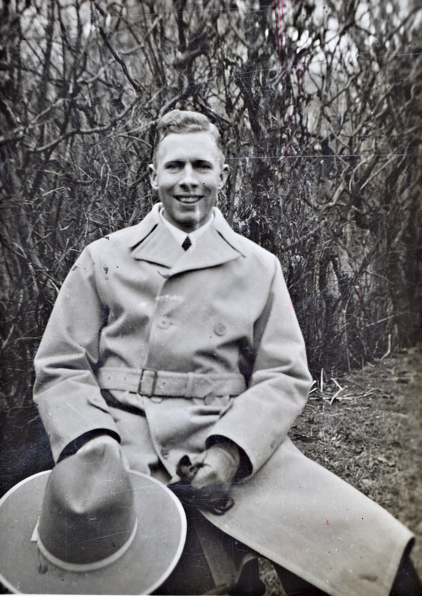 Joachim Hoffmann (1905-1934), SS-Sturmbannführer, commander of the Gestapo in Stettin and one of the victims of the political purge of the National Socialist dictatorship known as "Night of the Long Knives" on June 30 1934. he was shot on the grounds of the LSSAH-barracks in Berlin-Lichterfelde by a squad of SS-men. The Picture must have been taken during his time as a political fugitive in South and Middle America in 1931/1932.